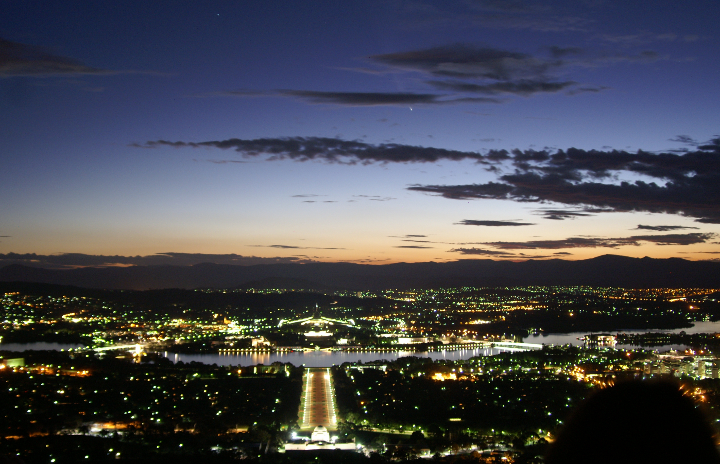 Photograph of Comet McNaught (The Great Comet of 2007) over Parliament House, Canberra, Australia. Taken using Konica Minolta Dynax 7D camera. 4 second exposure, 28mm focal length, 400 ISO speed rating. Camera software Dynax 7D v1.00, normal program.